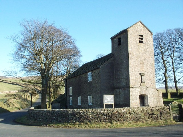 Jenkin Chapel, near Rainow